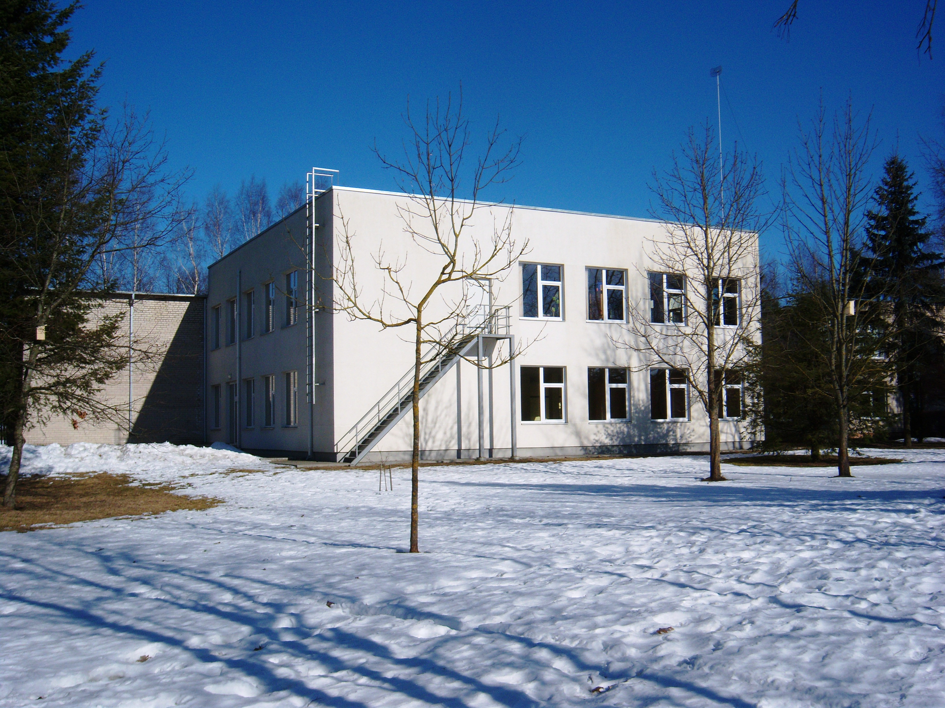 Batniava principal school, Kaunas district, Lithuania